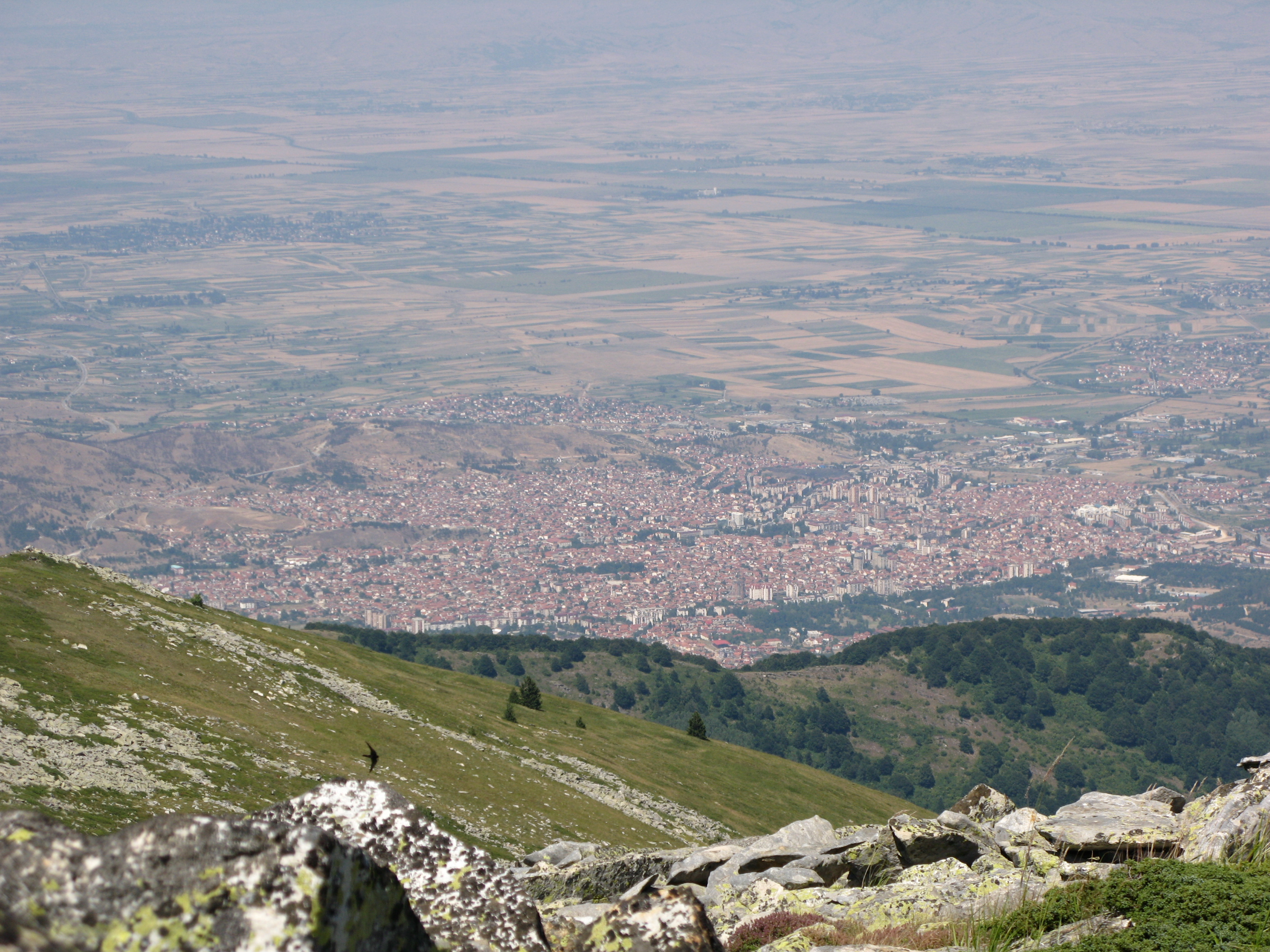 Bitola seen from Baba mountain,Macedonia.